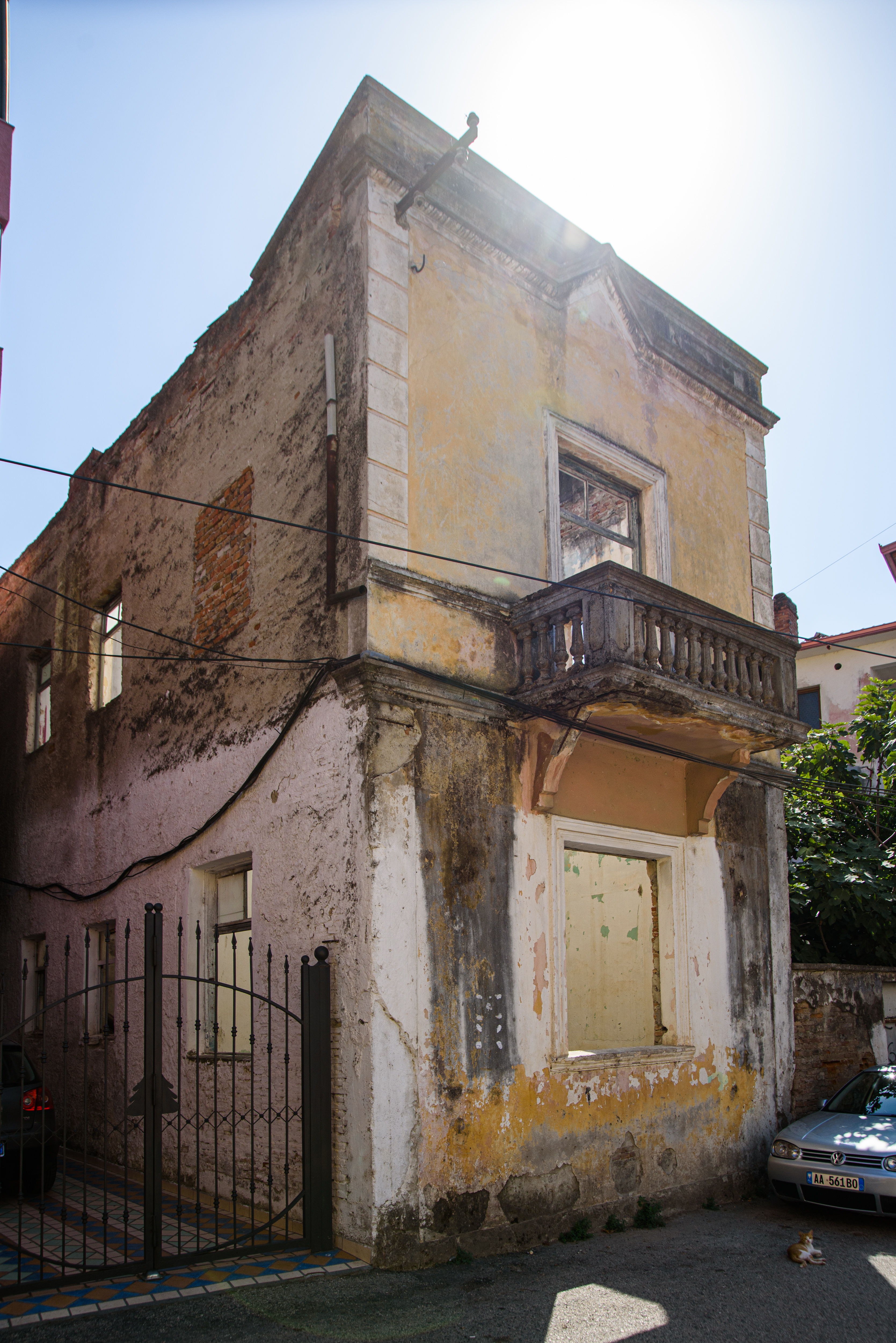 Photo realised during the expedition around Albania for the project The Albanian House